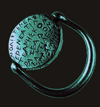 Golden ring Ezerovo mound BG Ancient Thrace period